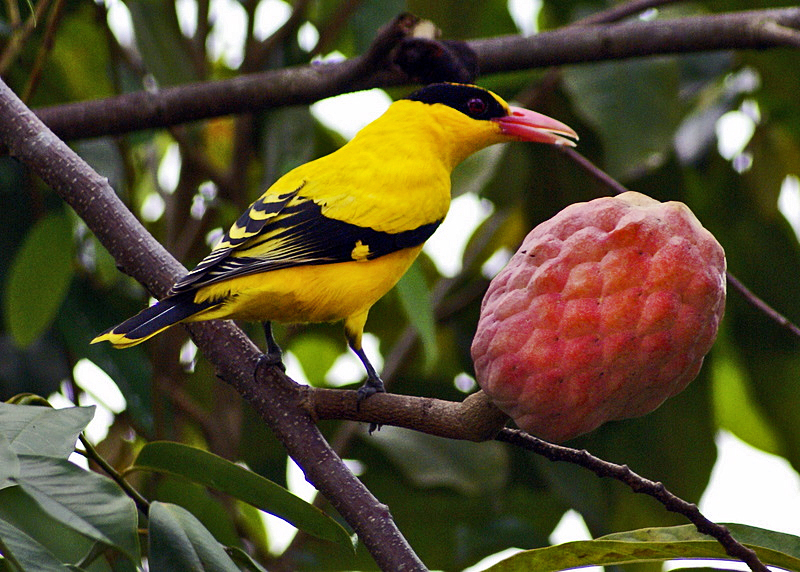 A ripe custard-apple (Annona reticulata) in a custard-apple tree, about to be fed upon by a Black-naped Oriole. Photo taken in Kajang, Selangor, Malaysia, with a Sony DSLR-A100 digital camera.